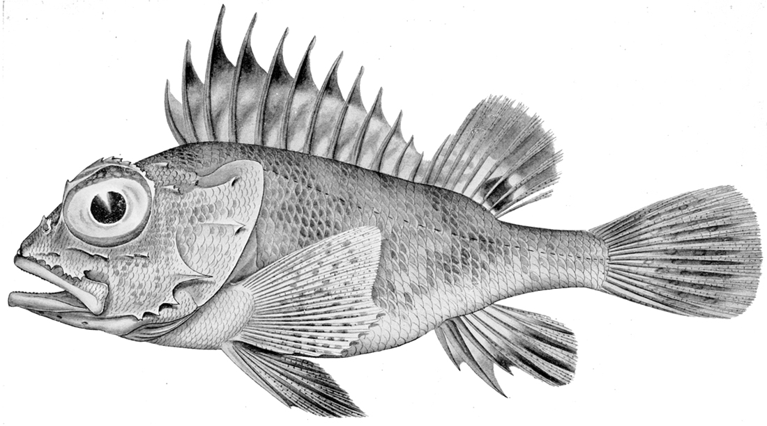 Neosebastes incisipinnis